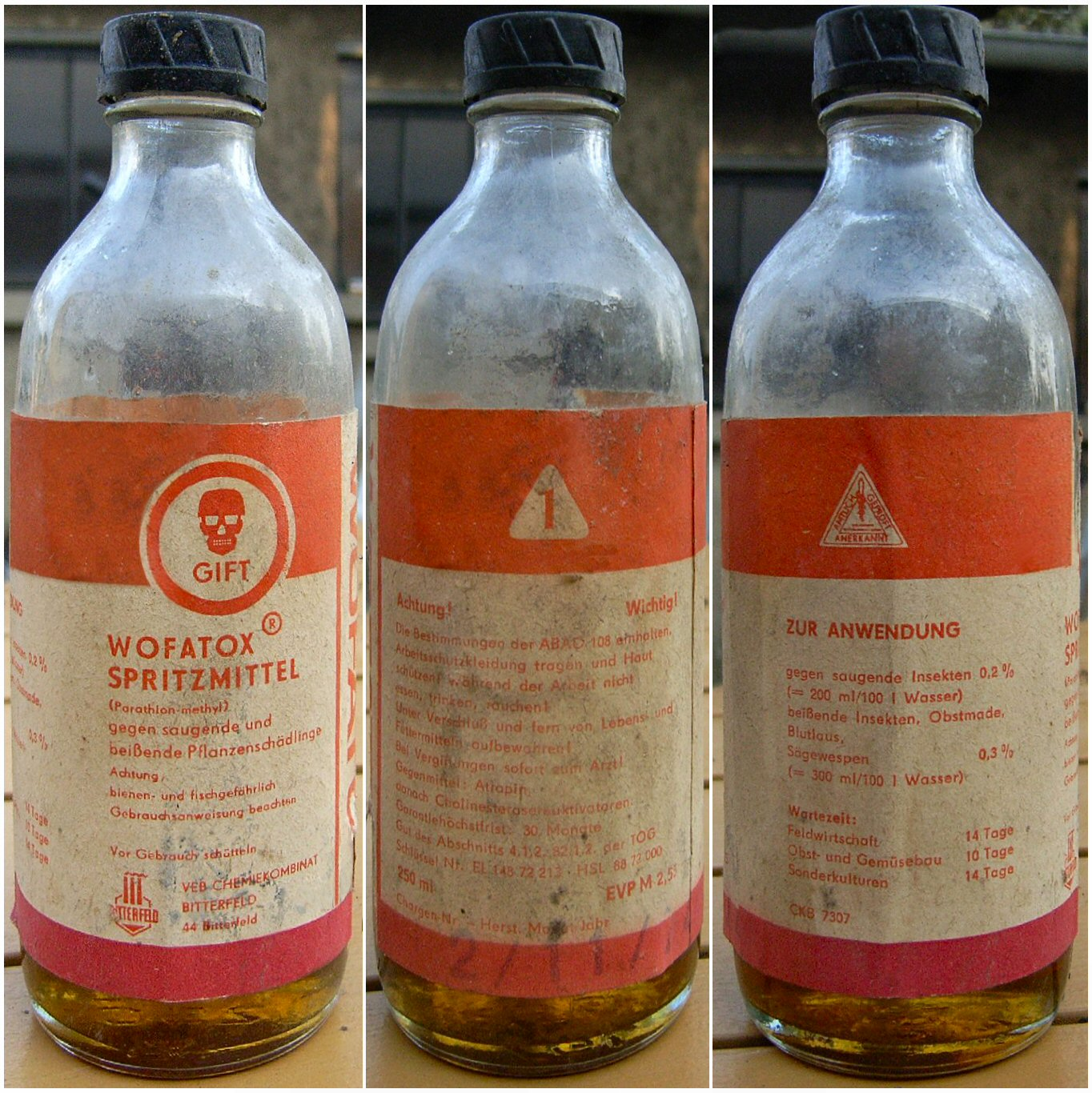 Insecticide “Wofatox” (Parathion methyl) from East Germany